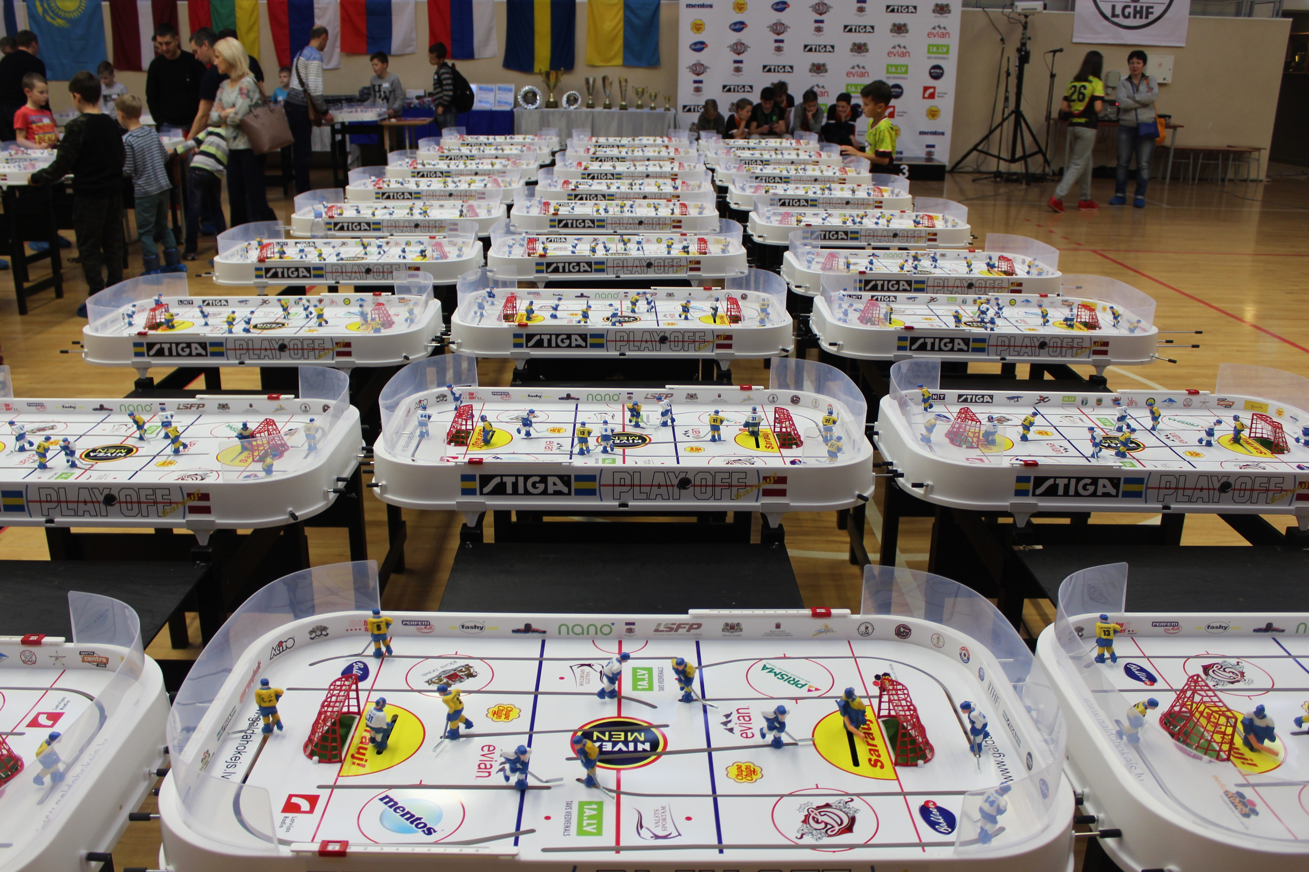 Stiga table hockeys before Riga Cup 2017